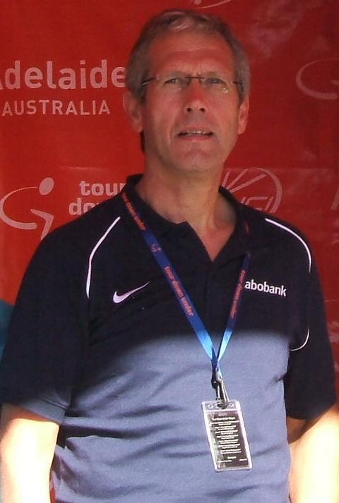 Named cyclist at the en:2009 Tour Down Under team presentation